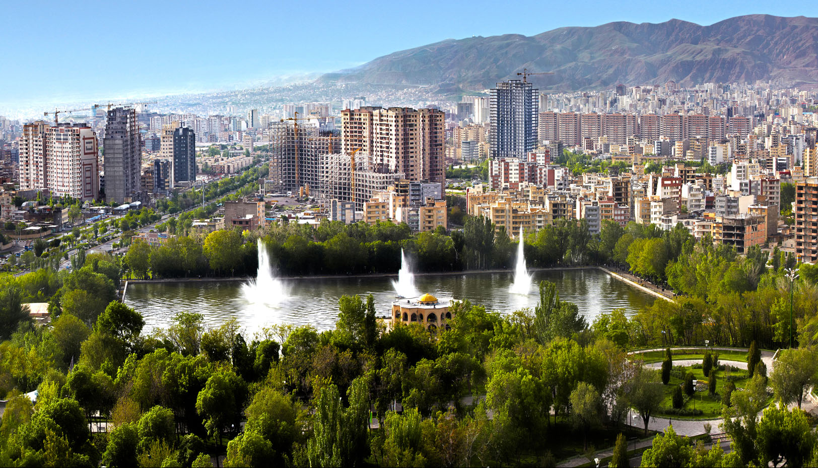 Panoramic view of Tabriz, El Goli.